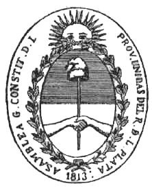 Coat of Arms of the Assembly of the Year XIII, the first seal used in current Argentina.